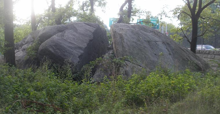 Split Rock, Bronx, New York, east face looking towards west, 20 August 2011